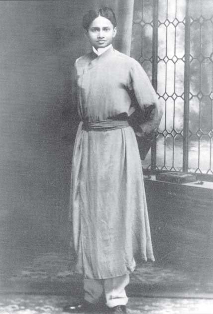 Swami Paramananda, a direct disciple of Swami Vivekananda. Known as Suresh Guhathakurta in his pre-monastic days, Swami Paramananda was born in a distinguished family in 1884 in what Swami Paramananda in the West is now known as Bangladesh. Inspired by the teachings of Sri Ramakrishna, he once visited Belur Math in 1901 in the company of some older men from his village. He met Swami Vivekananda there and was deeply impressed by this meeting and joined Belur Math as a monastic aspirant.